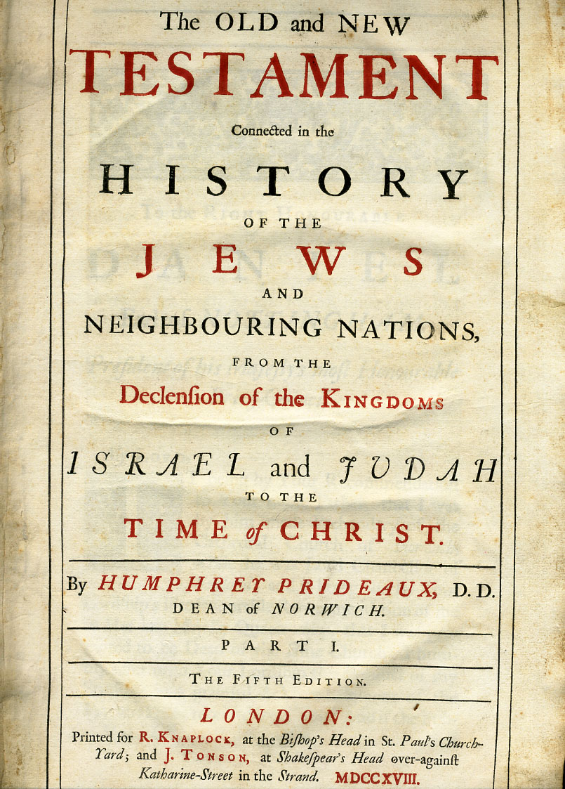 Titlepage from a fifth edition of Humphrey Prideaux's The Old and New Testament as Connected in the History of the Jews